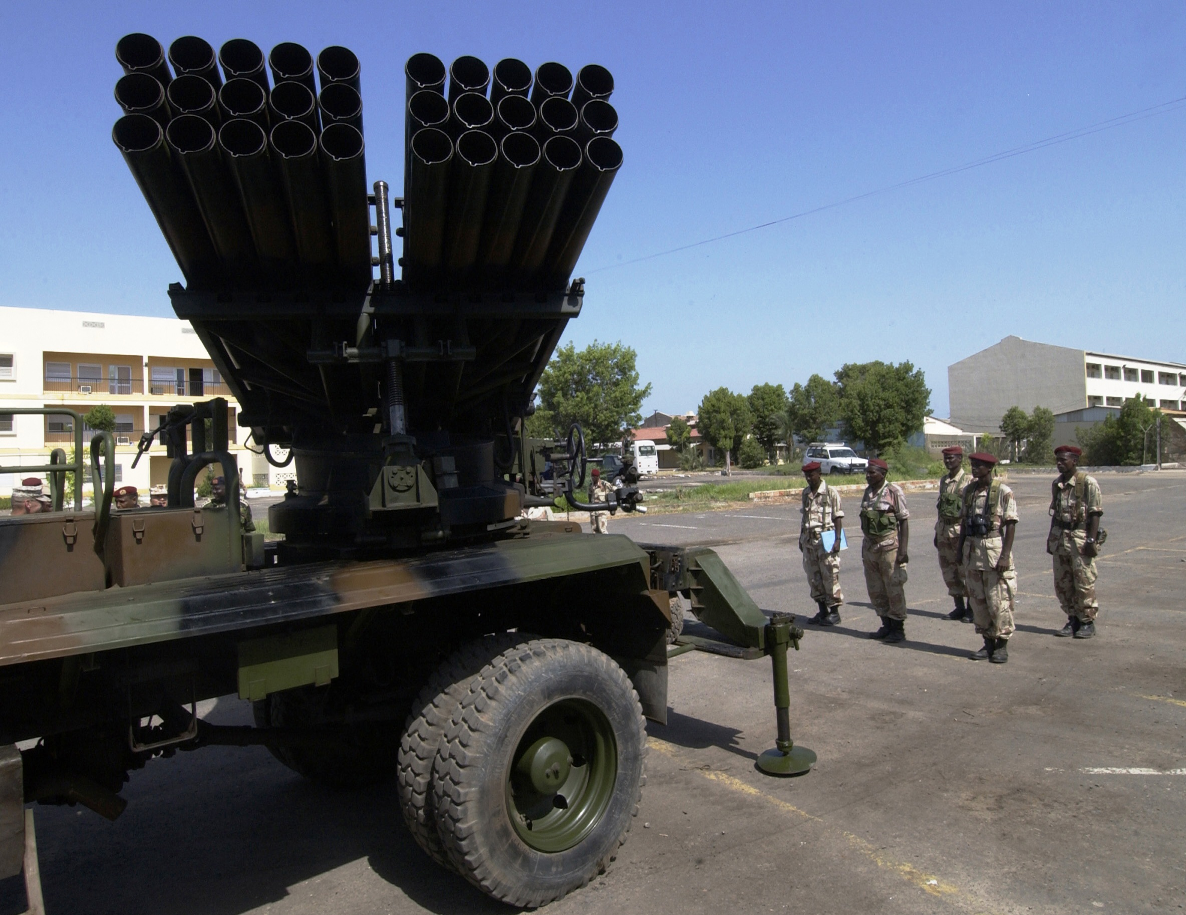 Djiboutian army soldiers stand at attention after performing a demonstration during a tour of Djiboutian military facilities by coalition forces from Combined Joint Task Force Horn of Africa in Djibouti City, Djibouti, May 16, 2006.